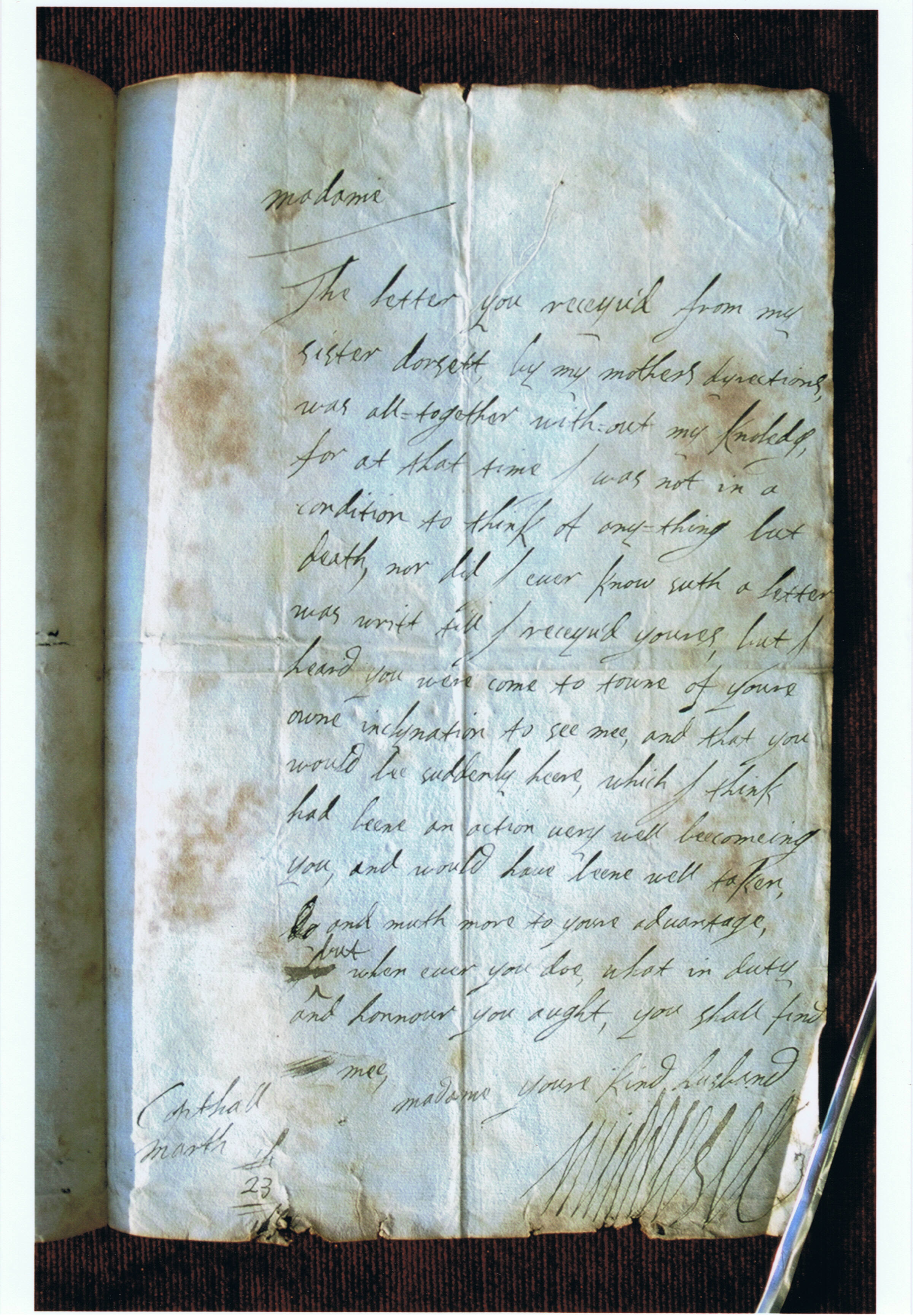 autograph manuscript letter from Lionel Cranfield, 3rd Earl of Middlesex to his wife Rachel (widow of Henry Bourchier), circa 1670. Photo & scan by me R. de Salis, 2006-2012. Source: Fane de Salis MSS. Rodolph (talk) 00:21, 19 May 2014 (UTC) Rodolph (talk) 13:57, 13 January 2012 (UTC)